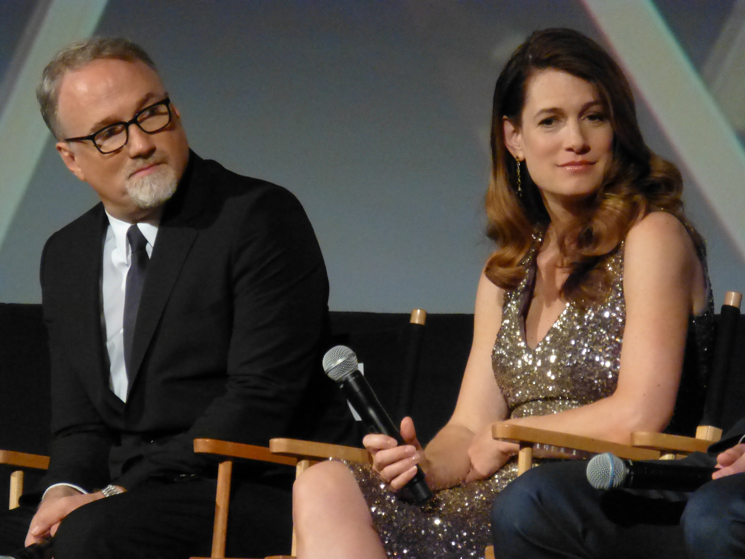 Gone Girl Premiere at the 52nd New York Film Festival, October 2014.